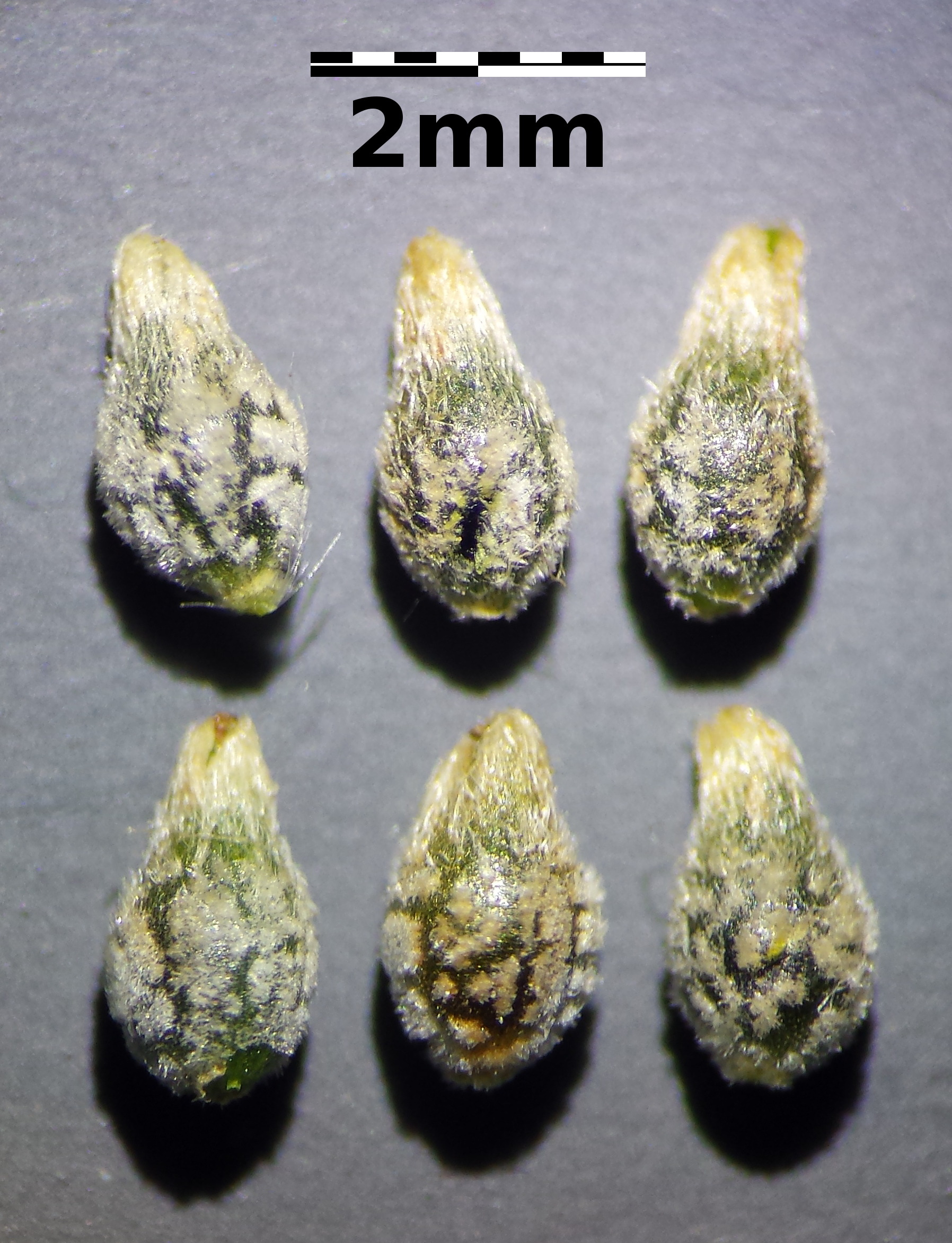 Fruits Taxon: Thymelaea passerina (sensu Fischer et al. EfÖLS 2008 ISBN 978-3-85474-187-9) Location: abandoned marshalling-yard Breitenlee, Vienna-Donaustadt - ca. 160 m a.s.l. Habitat: dry grassland